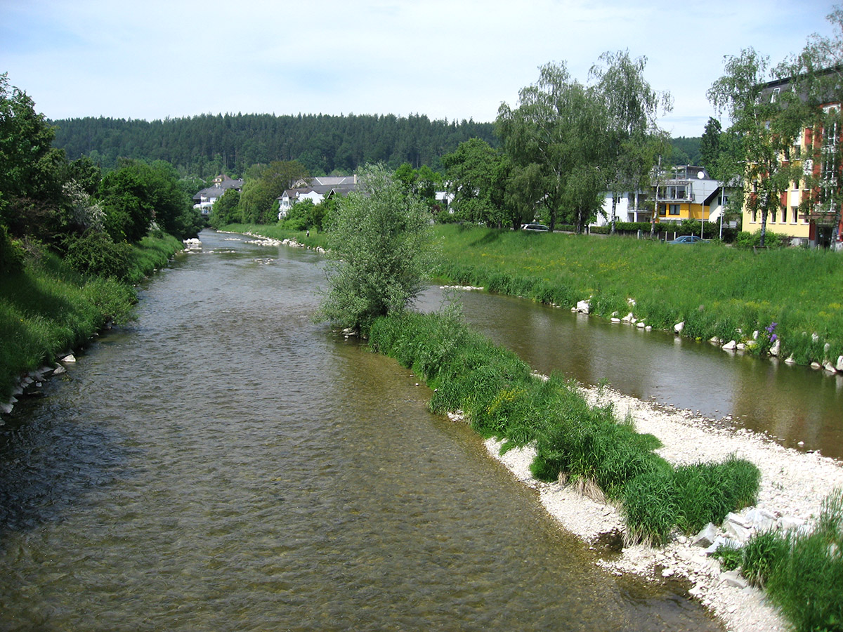 Sights of Vöcklabruck in Upper Austria, here the namegiving river Vöckla running through the town as seen from Kolpingsteg footbridge; in the background you see the Pfarrerwald forest.